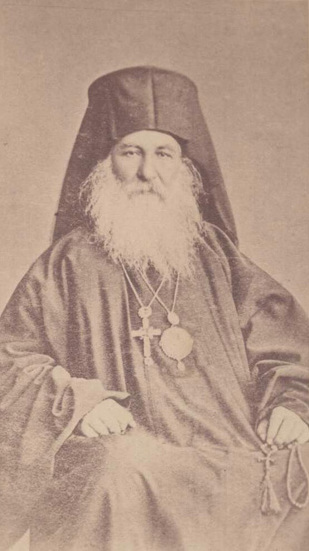 Hilarion of Makariopolis by Toma Hitrov